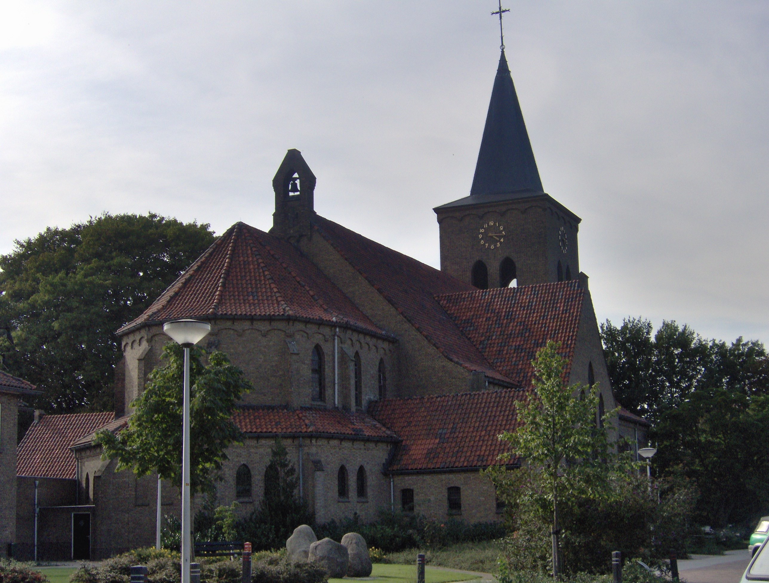 The Roman catholic Plechelmus church of Rossum Location: Rossum, a village in the municipality of Dinkelland, Netherlands